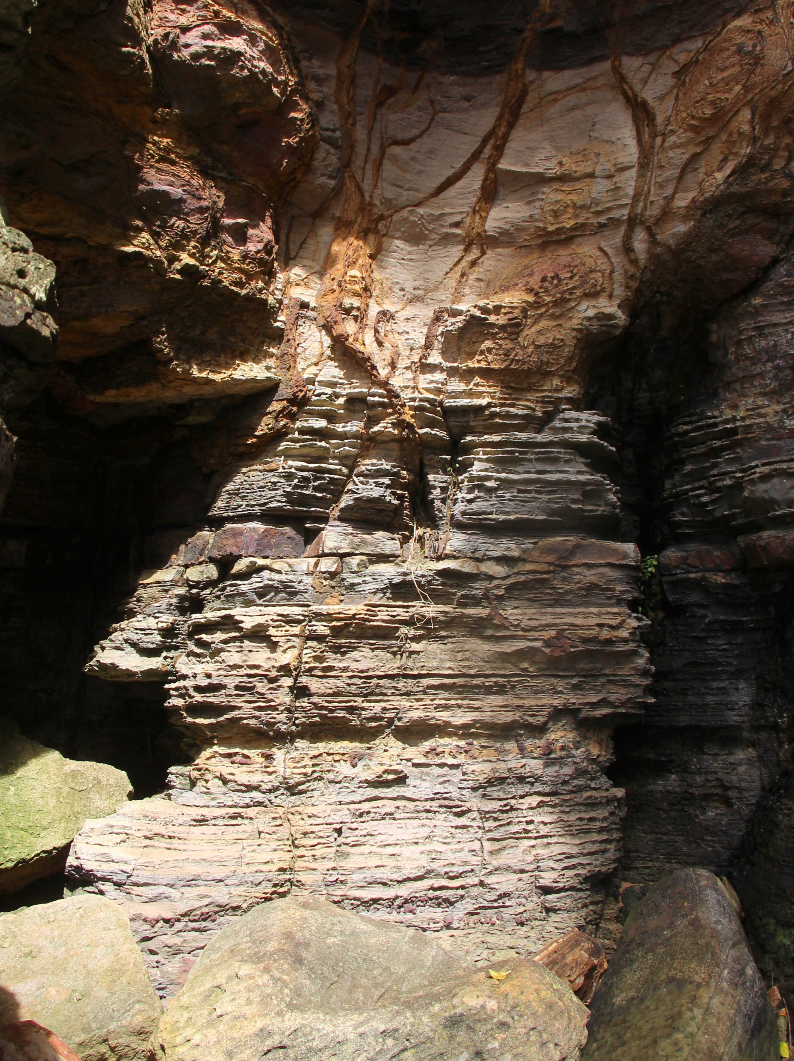 sedimentary rocks at north Bilgola headland. Newport formation sandstone (above). Likely to be the Garie Formation (below)